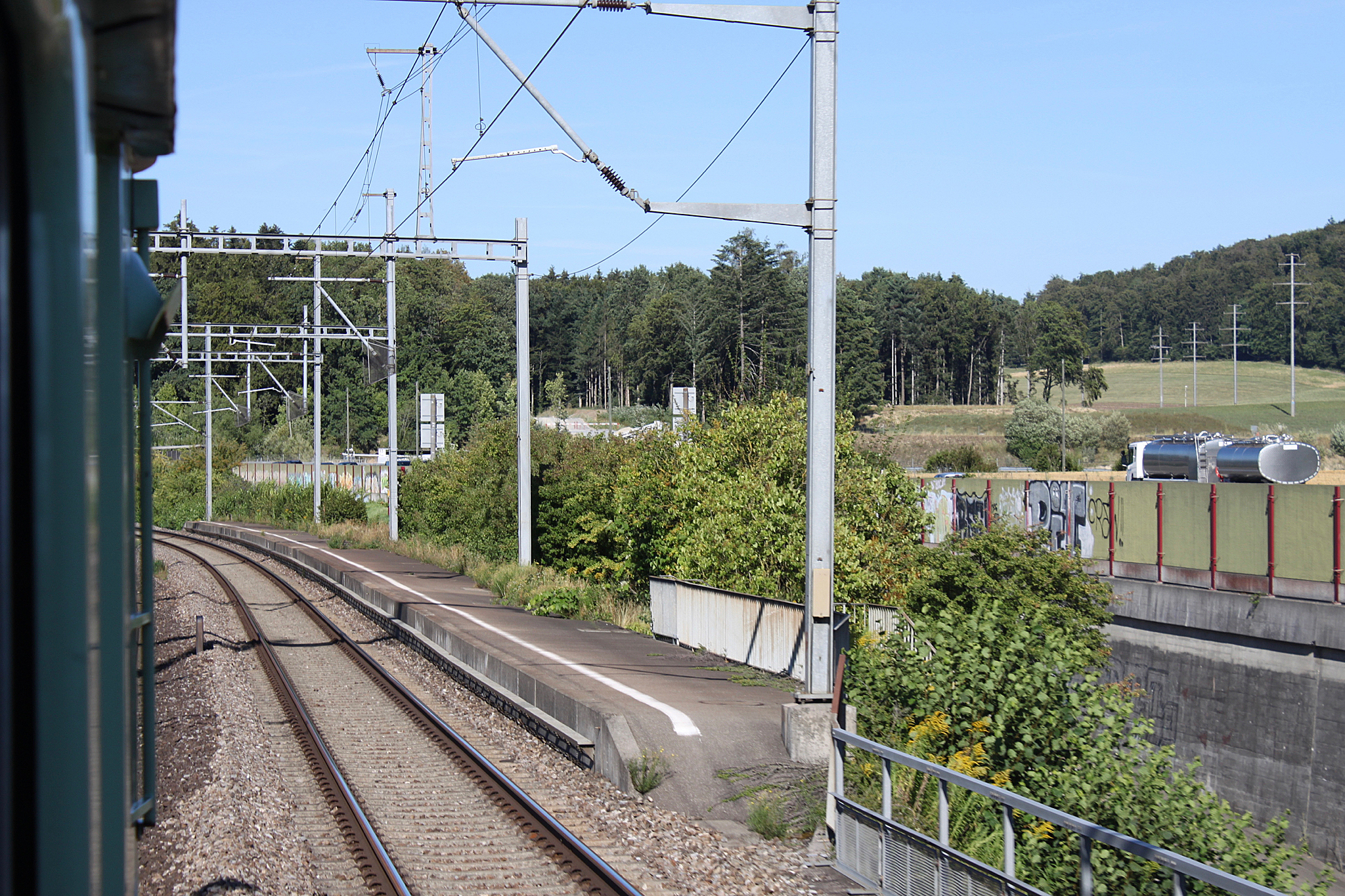 (Former?) Mattstetten railway station.